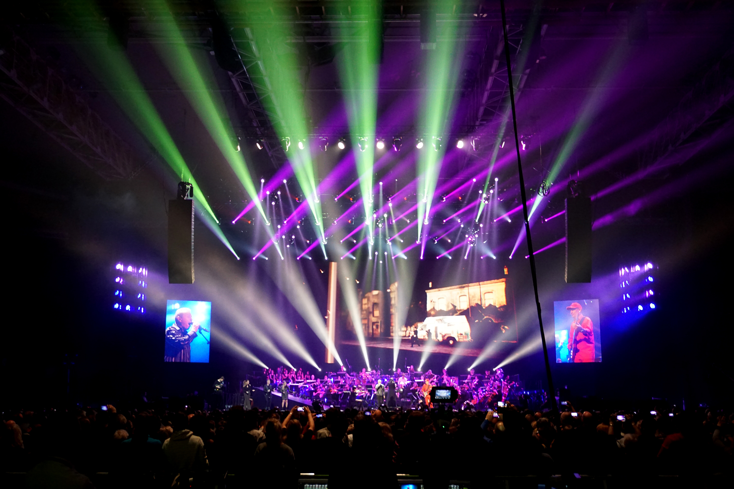 Günther Sigl & Barny Murphy as "Surprise Act" of the 66. "Night of the Proms" at Olympiahalle Munich.